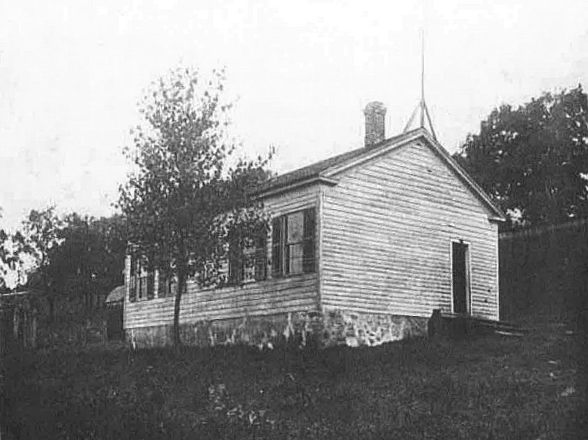 Point Douglas School photographed c. 1910, Denmark Township, Minnesota, USA. Viewed from the southeast.